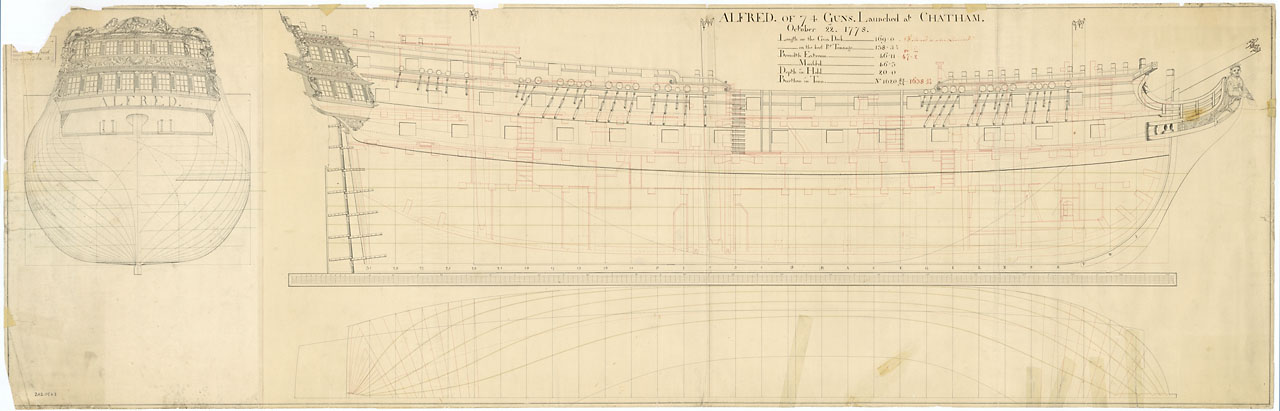 Plan showing the body plan with sternboard decoration, sheer lines with inboard detail and figurehead, longitudinal half-breadth for Alfred (1778), a 74-gun Third Rate, two-decker, as built at Chatham Dockyard.